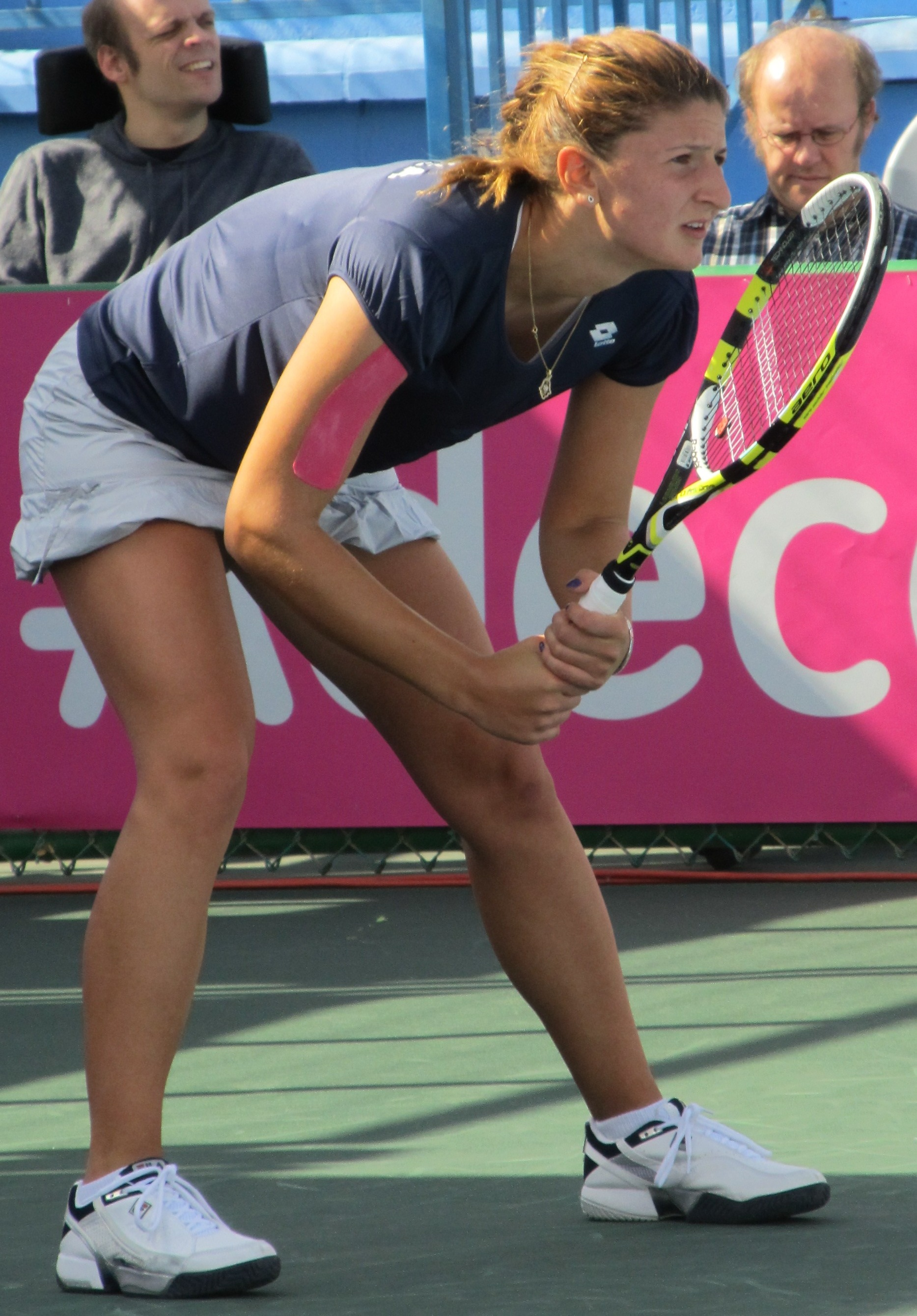 The tennis player Irina-Camelia Begu of Romania during her match against Petra Martić of Croatia in the first day of Fed Cup Group I 2012 Europe/Africa in Eilat, Israel